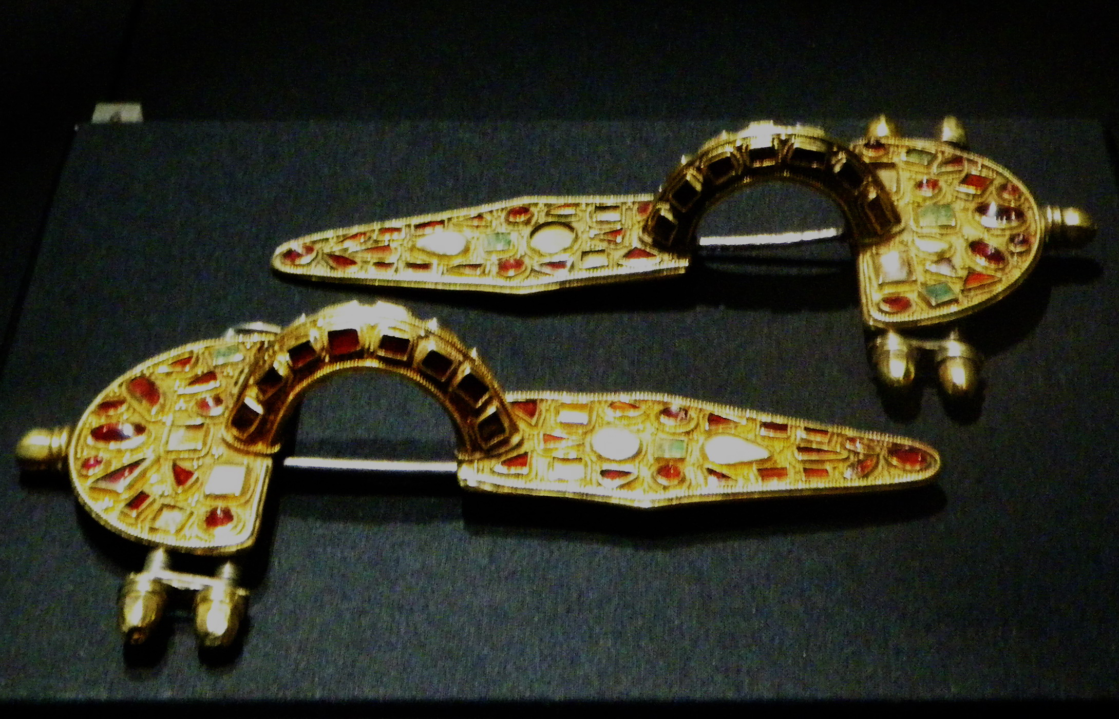 Gothic Gold